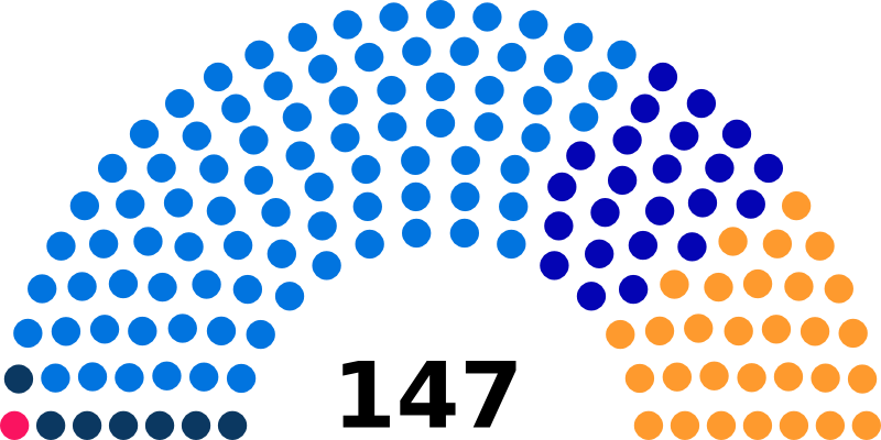 Seats diagramme of Swiss National Council (1896)